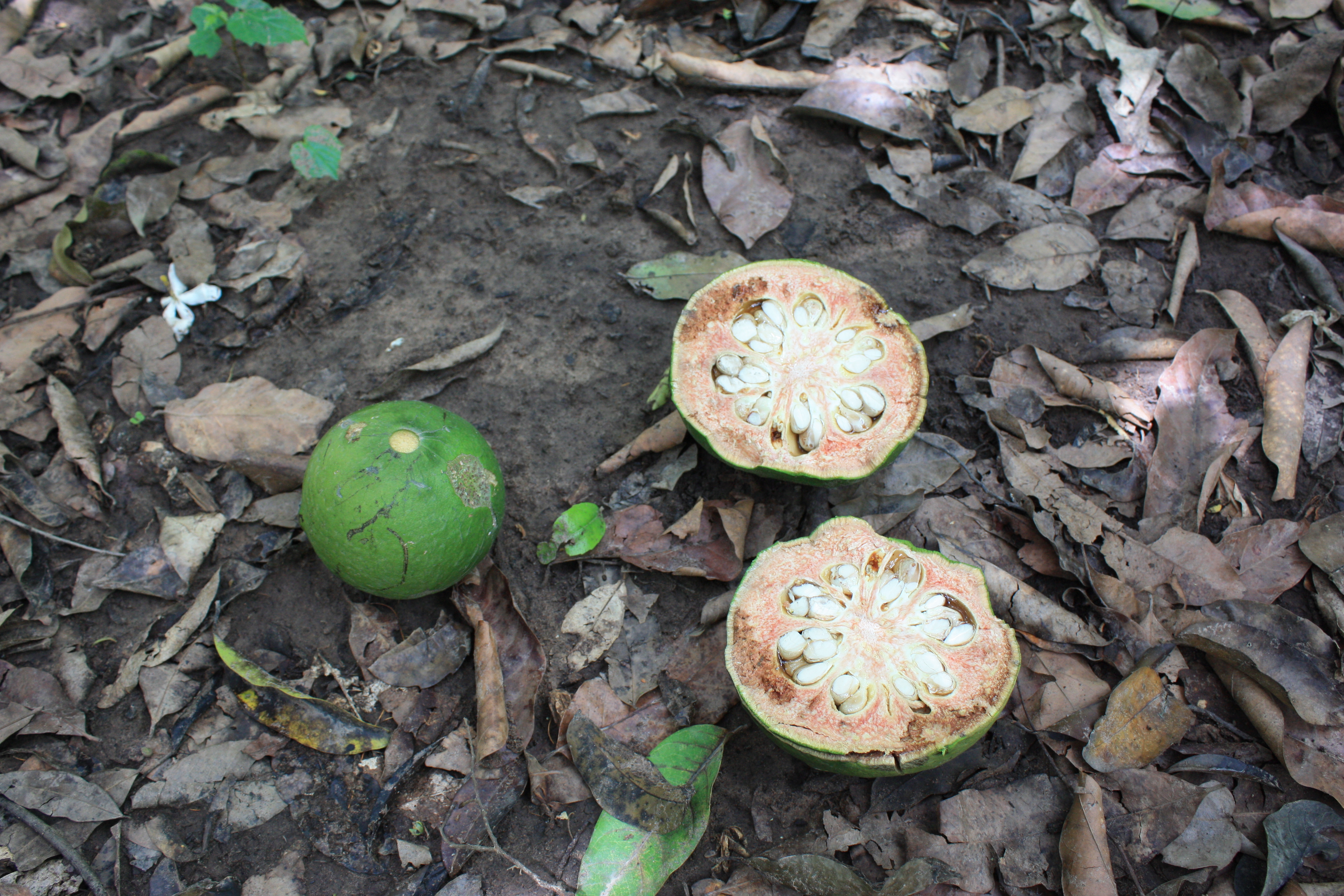 fruits of Afraegle paniculata, Comoé-Léraba reserve, SW Burkina Faso